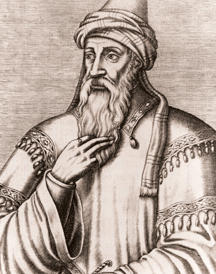 Moses ben Maimonides.